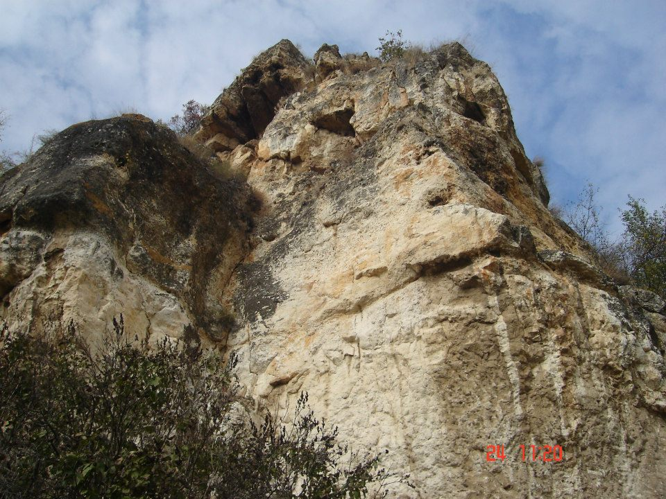 Rock formation near Krivnya